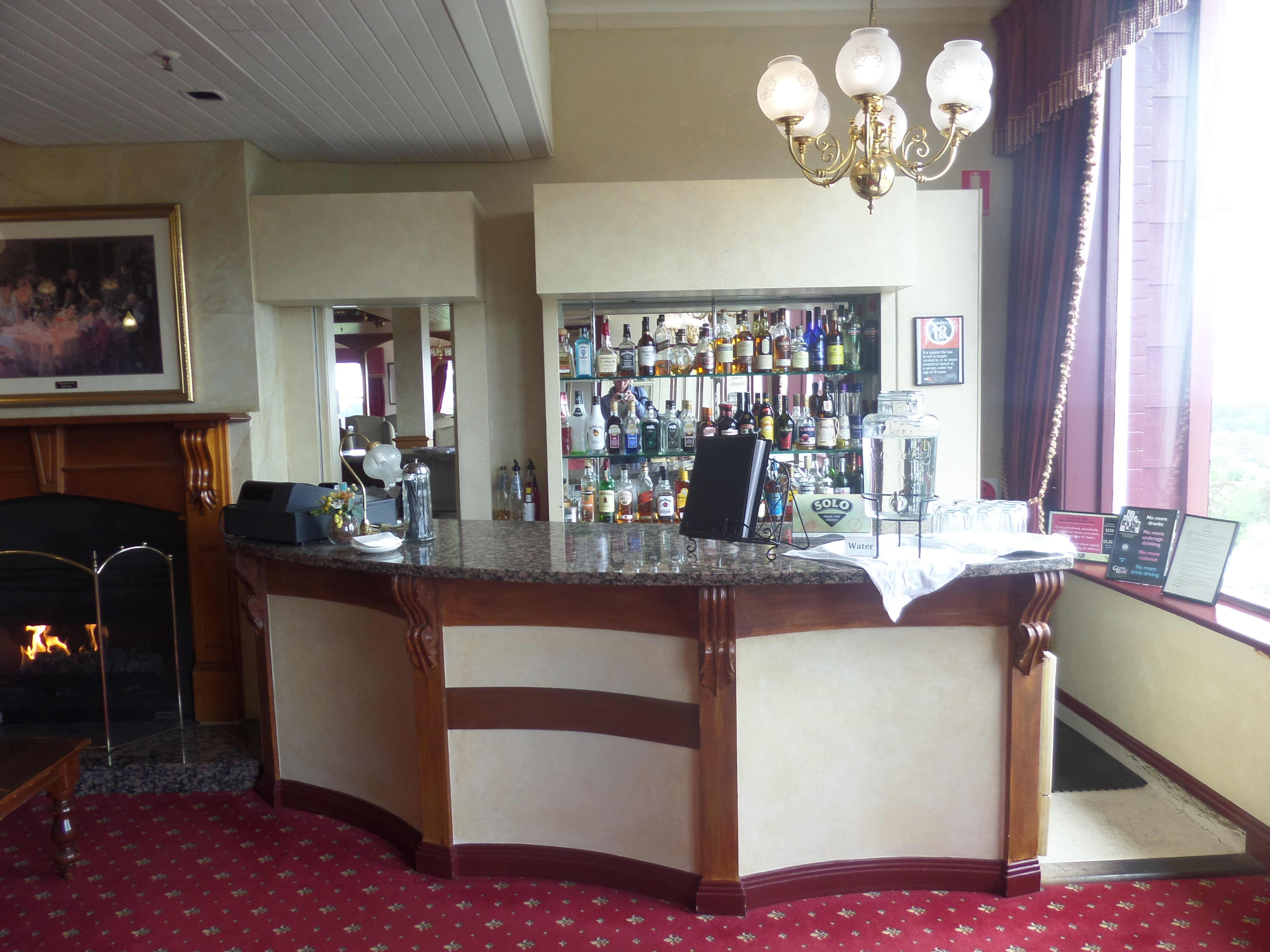 Front of bar in Hotel Mountain Heritage, Katoomba, NSW, Australia